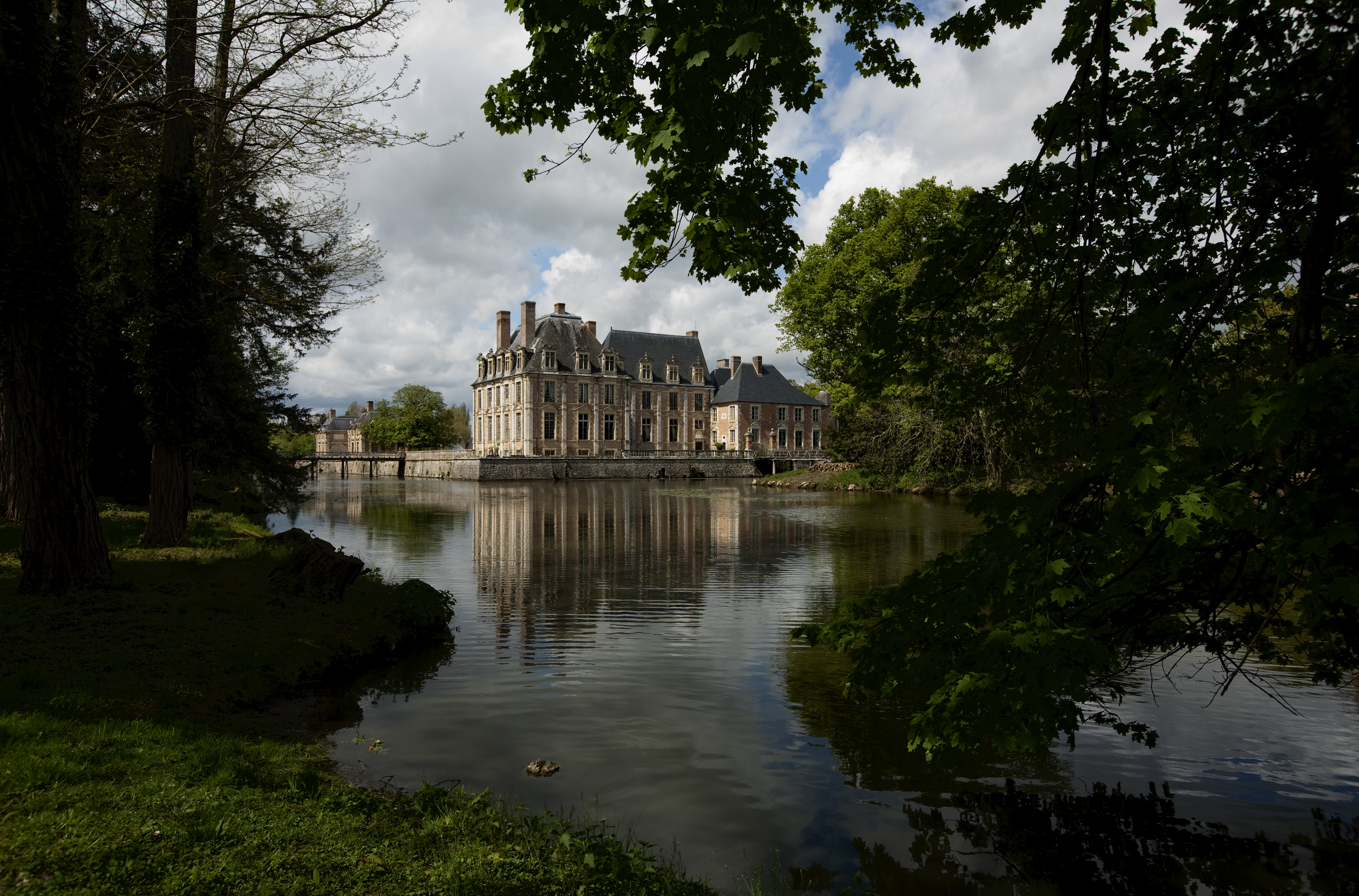 Castle of La Ferté-Saint-Aubin, Loiret, France.